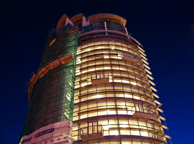 The "Boat" site, Belfast (17) See 1465113. The illumination is provided by the contractor’s temporary lighting inside the building. Continue to 1486306.